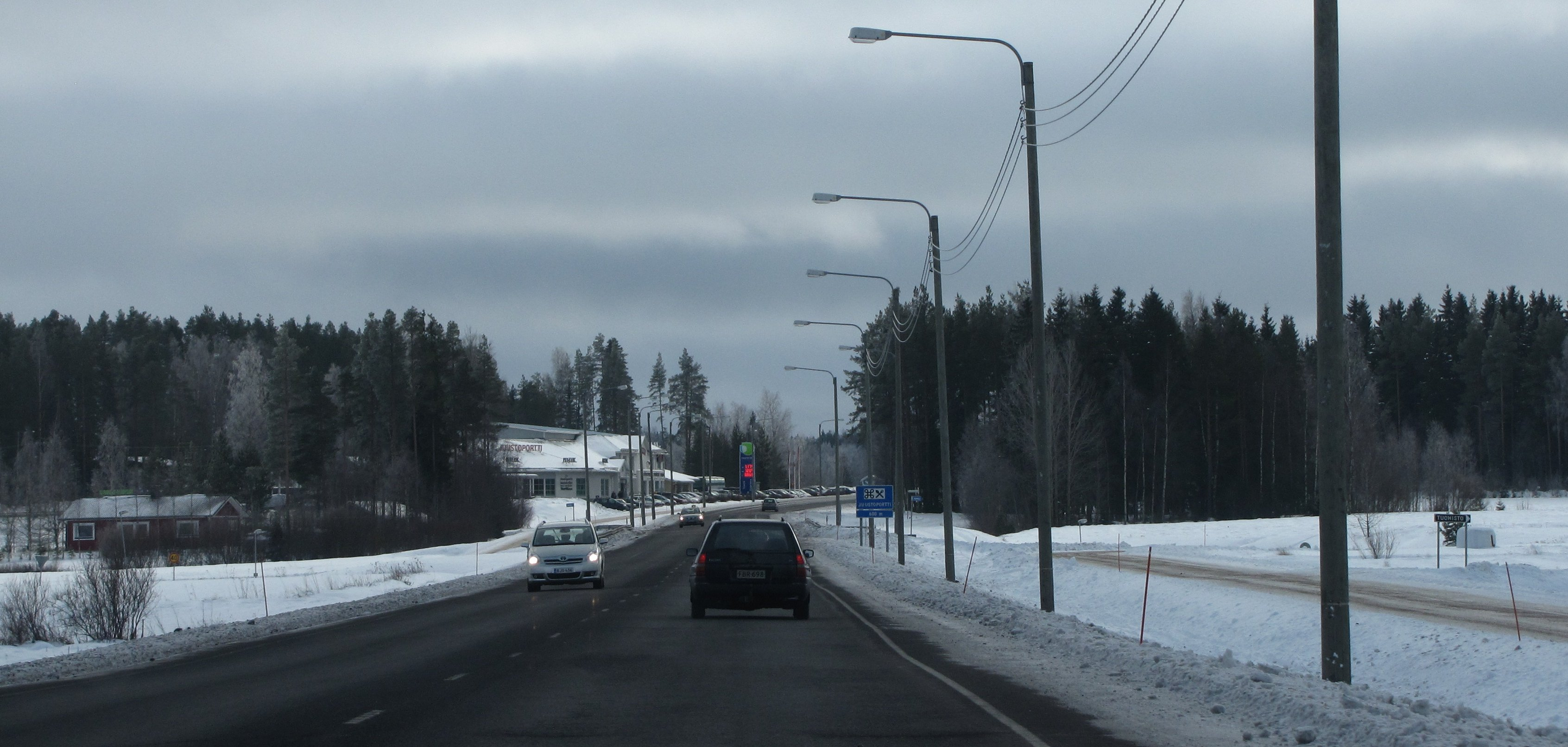 Finnish national road 3 (E12) in Keskikylä village, Jalasjärvi, Finland.